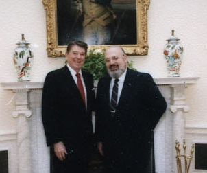 Diego C. Asencio and Ronald Reagan in Oval Office